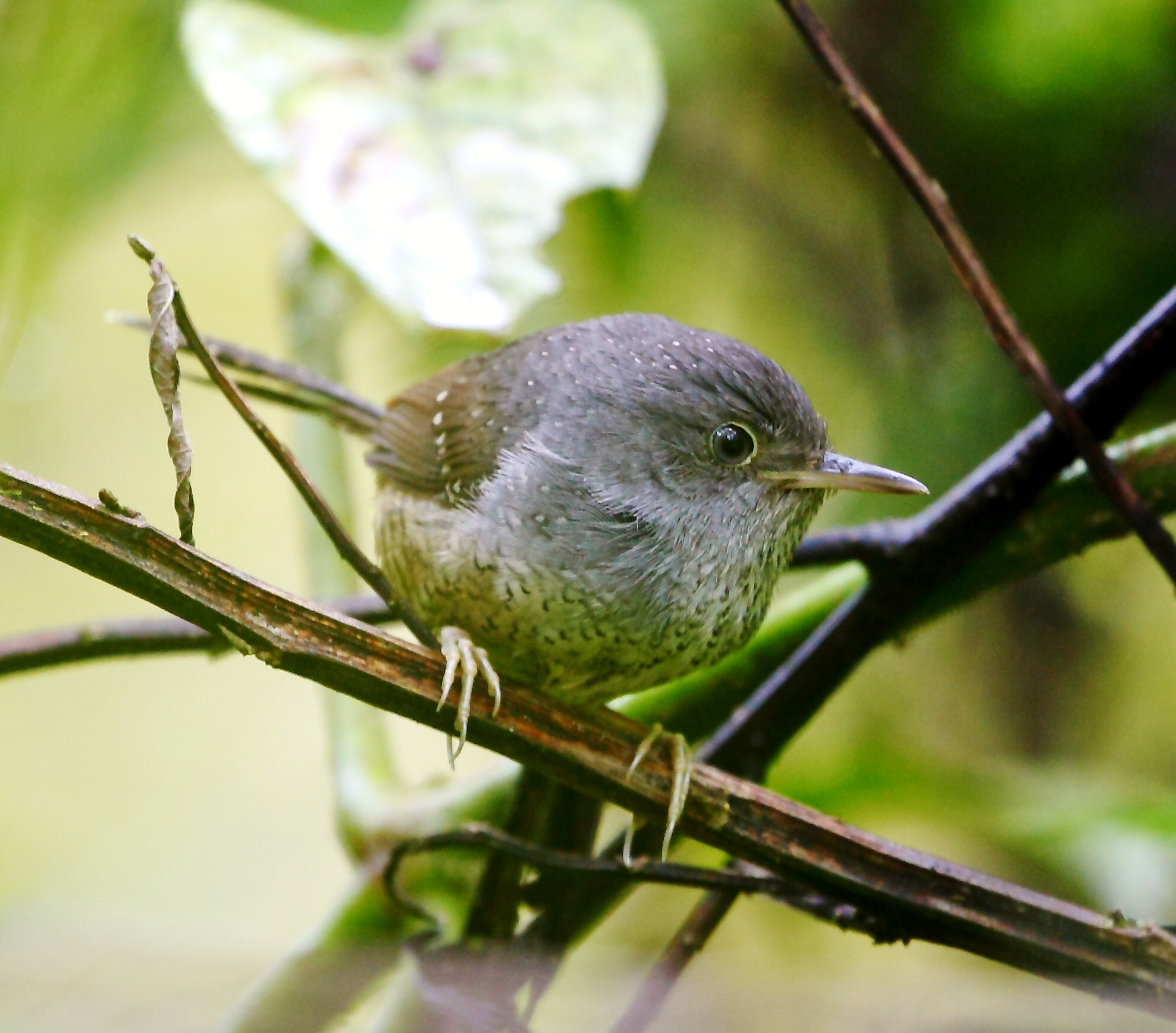 Spotted bamboowren at São Luiz do Paraitinga, SP, Brazportuil